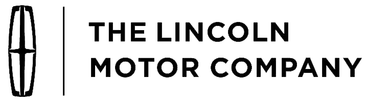 Logo of Lincoln Motor Company, a division of Ford.